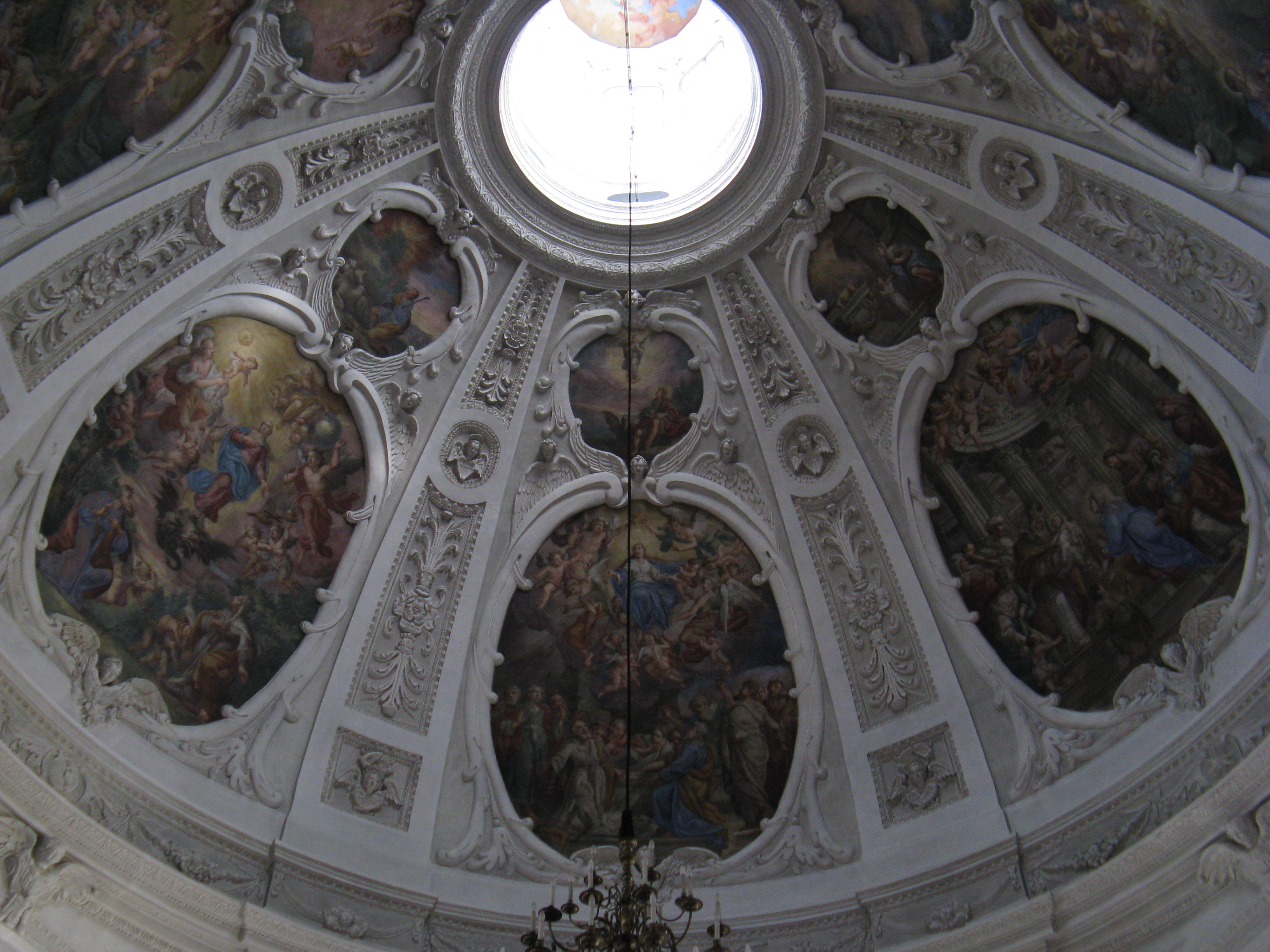 dome of Mariahilf church in Innsbruck, Austria